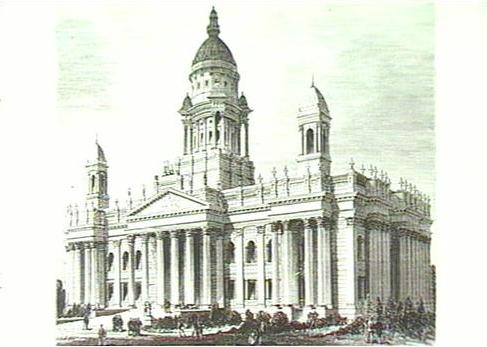 Image of the proposed Parliament House, Adelaide, 1874.